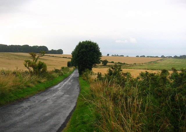 Lane, D'Arcy. Lane up to D'Arcy House. Runs through barley fields, and is beloved of fly tippers. The joy of the urban fringe.